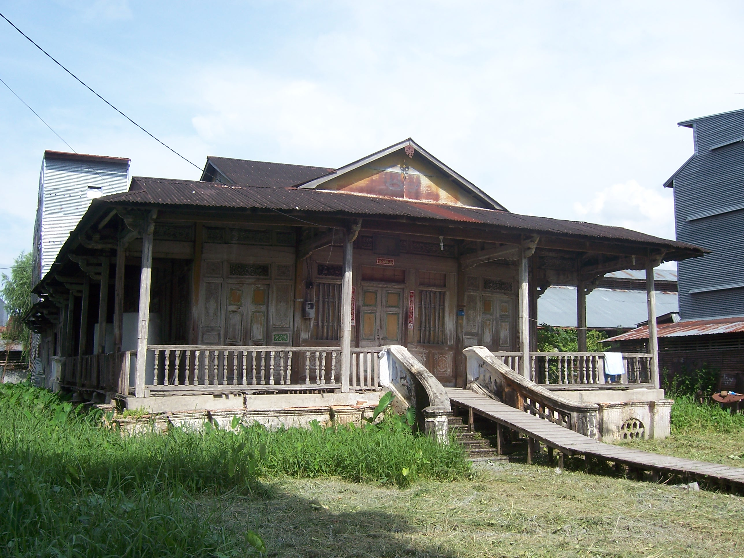 a former Kapitan office of Bagansiapiapi